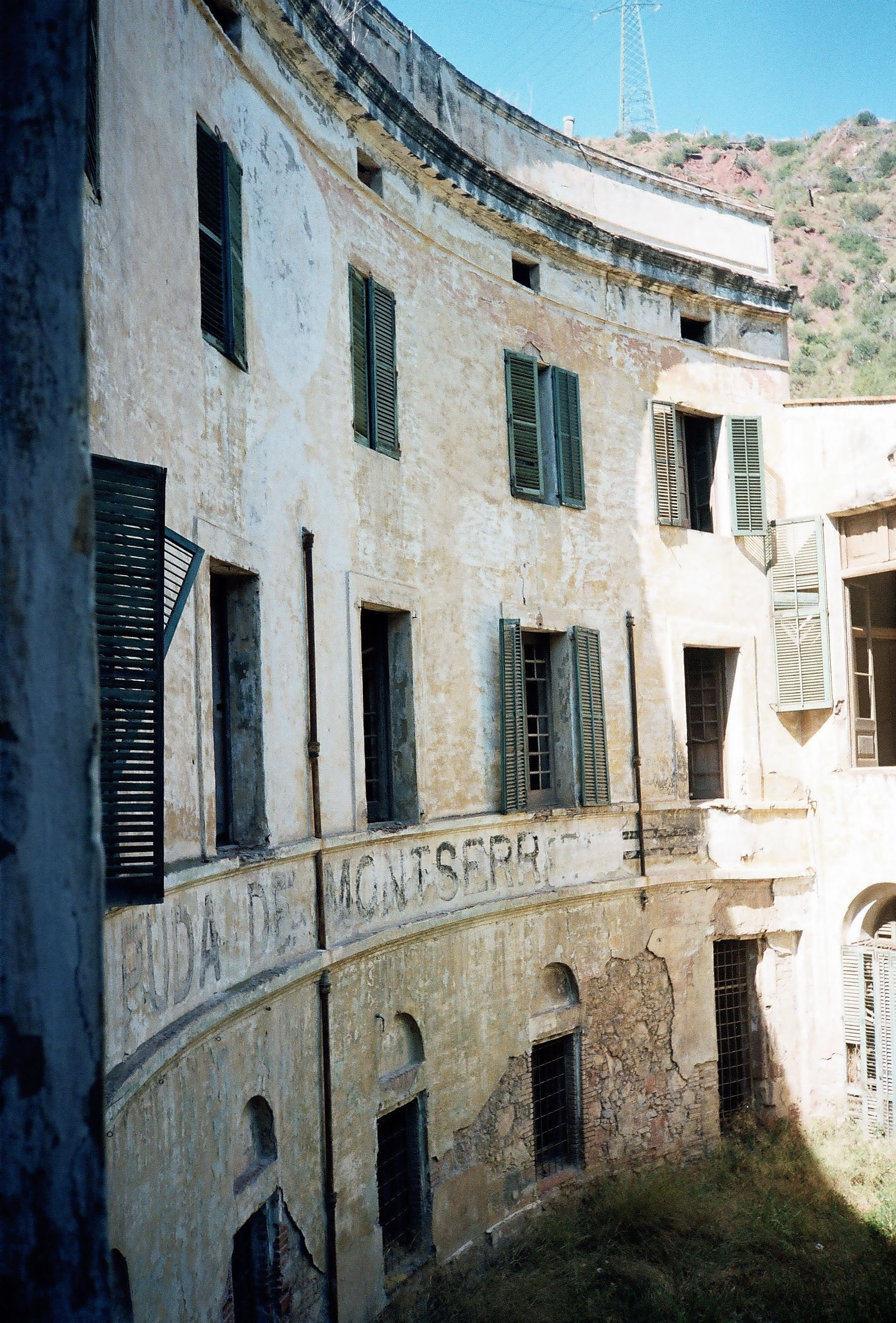 The facade of the spa Puda